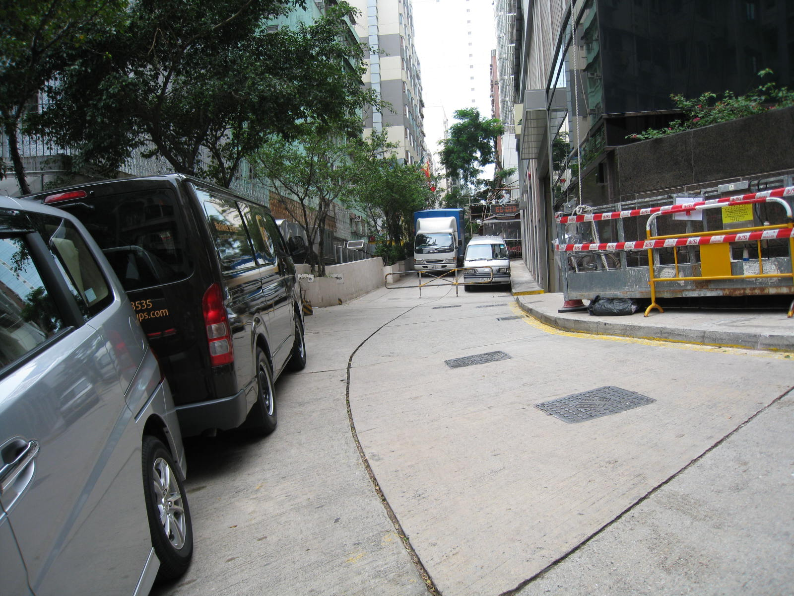 Observatory Road Entrance of Knutsford Terrace, Tsim Sha Tsui, Hong Kong